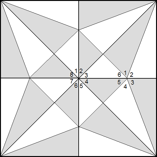 Created to help explain Robert Lang's third rule of origami crease patterns.